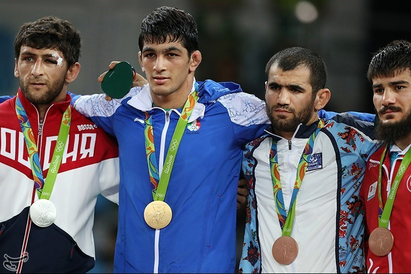 2016 Summer Olympics, Men's Freestile Wrestling 74 kg